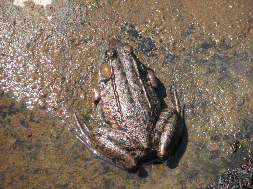 Northern Green Frog (Lithobates clamitans melanotus), Sturgeon River, Temagami, Ontario